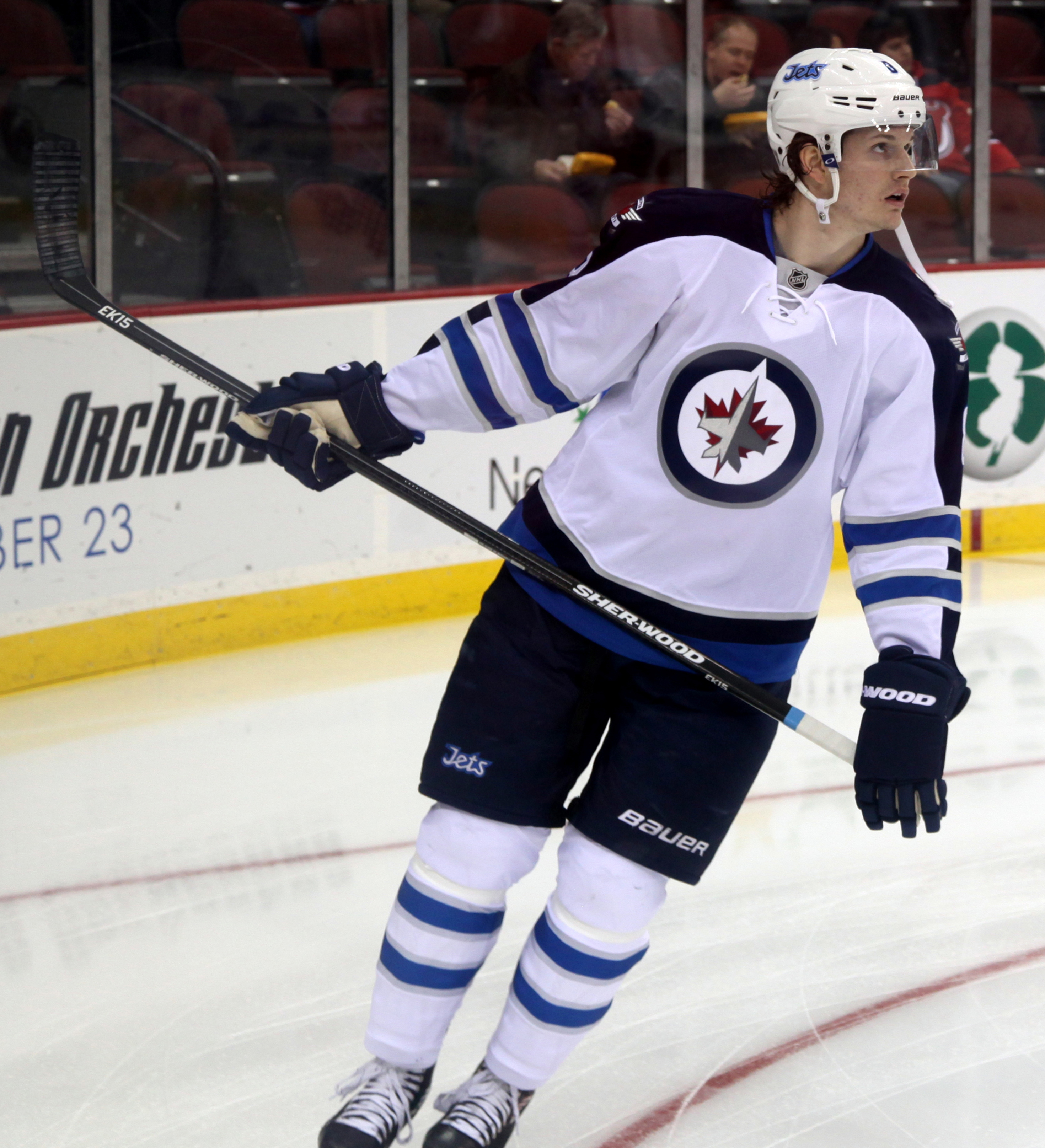 Trouba in 2013.